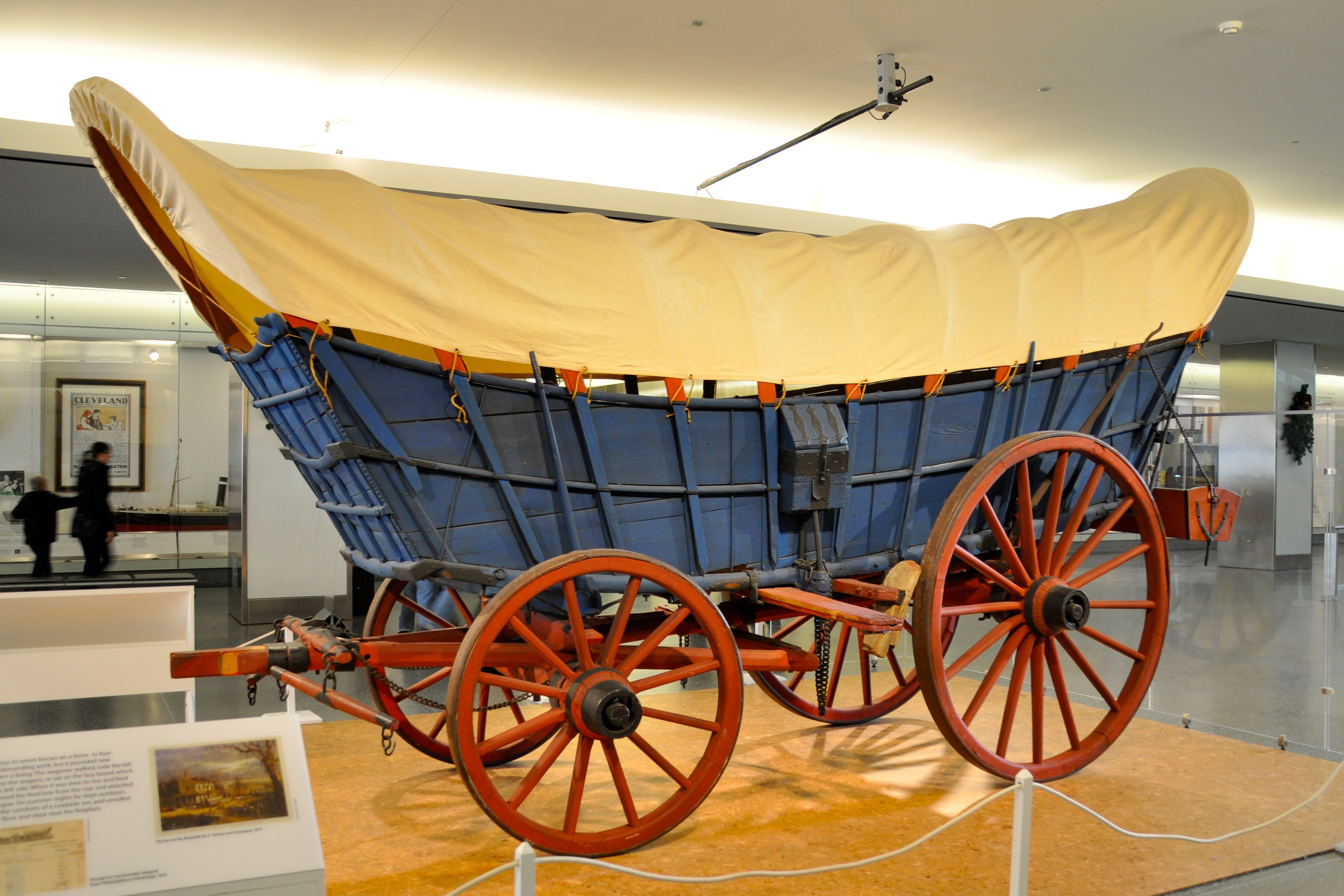 Conestoga Wagon, about 1840-1850, displayed at the National Museum of American History (Smithsonian Institution). “Pennsylvania Germans near the Conestoga River first made Conestoga wagons around 1750 to haul freight. By the 1810s, improved roads to Pittsburgh and Wheeling, Virginia (now West Virginia) stimulated trade between Philadelphia, Baltimore, and settlers near the Ohio River. Wagoners with horse-drawn Conestoga wagons carried supplies and finished goods westward on three- to four-week journeys and returned with flour, whiskey, tobacco, and other products. The Conestoga wagon’s curved shape shifted cargo toward the center and prevented items from sliding on mountain slopes. Railroads replaced Conestoga wagons by the 1850s, but the prairie schooner, a lightweight, flat variant, carried pioneer settlers from Missouri to the West Coast.”